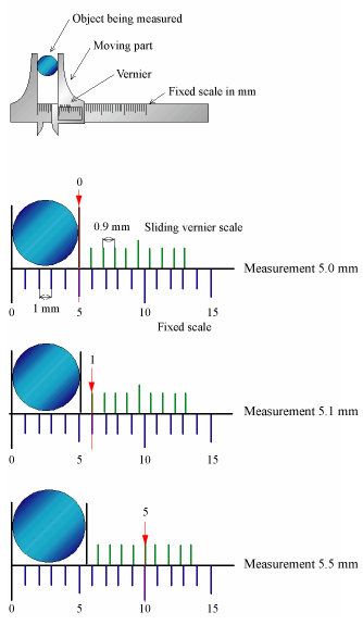 Vernier.